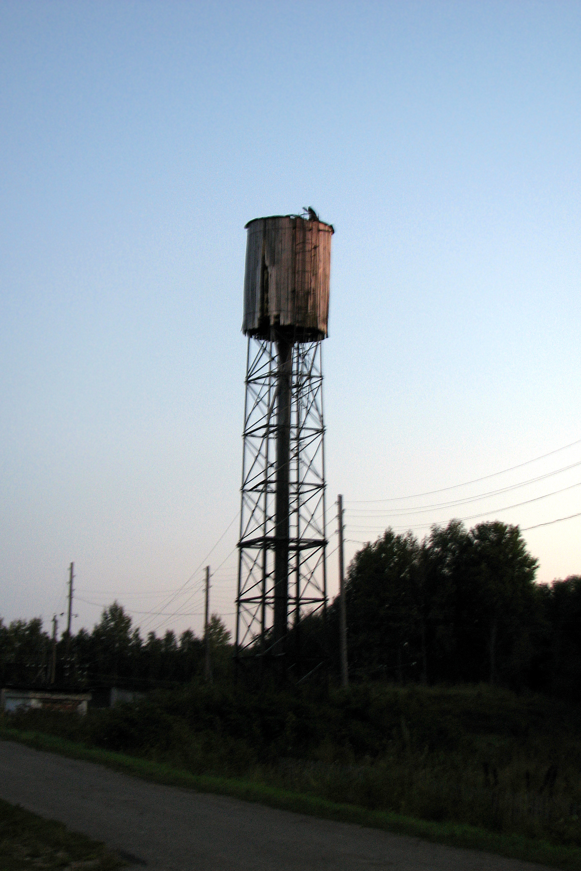 Water tower in Butakovo.